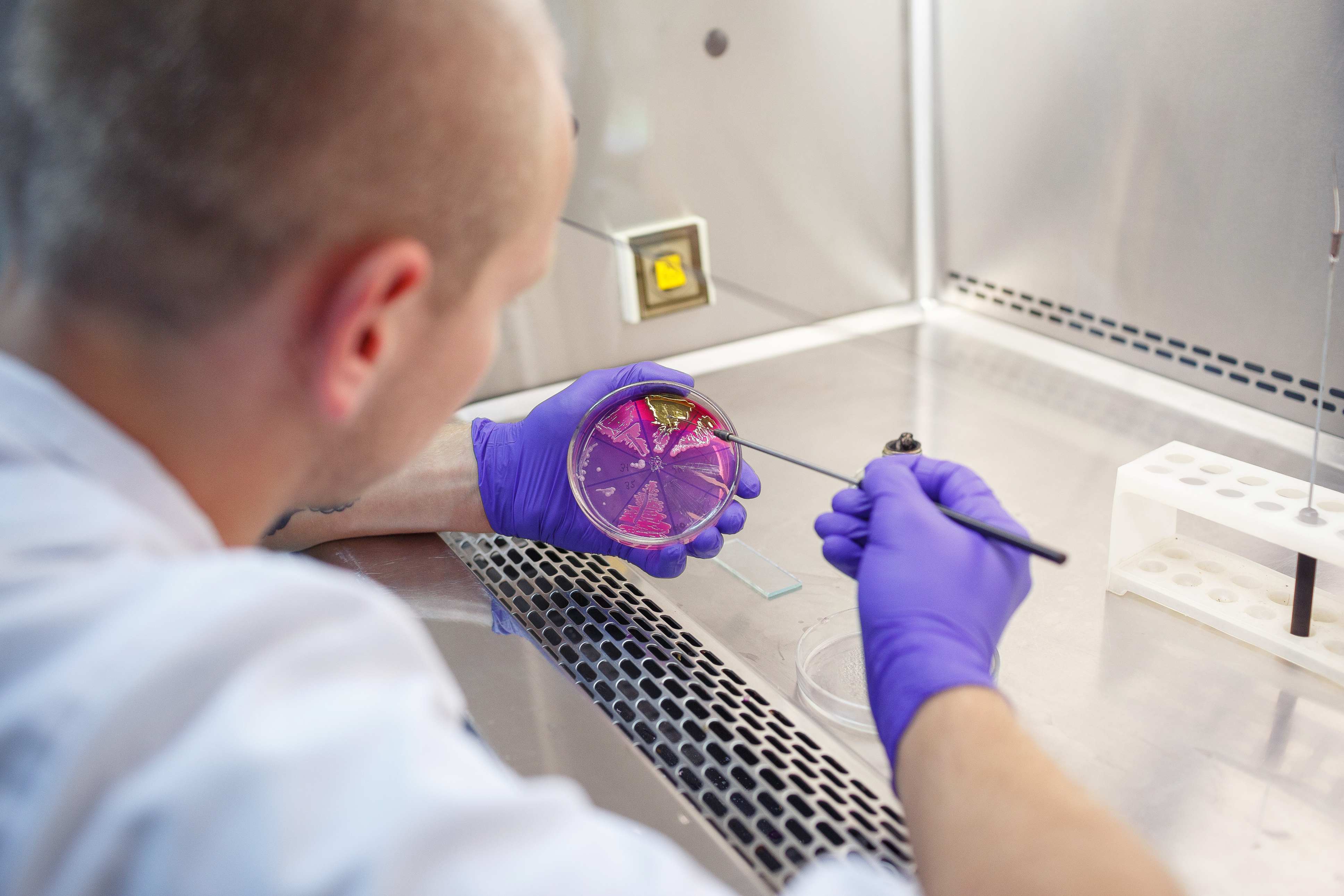 E. coli